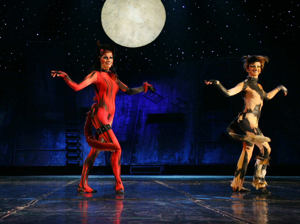 Barbara Melzer as Bombalurina and Ewa Lachowicz as Demeter in the musical "Cats" in Roma Musical Theatre in Warsaw, 24 November 2007 r.